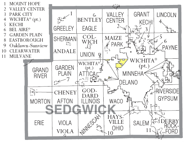 Map of Sedgwick County, Kansas highlighting Delano Township